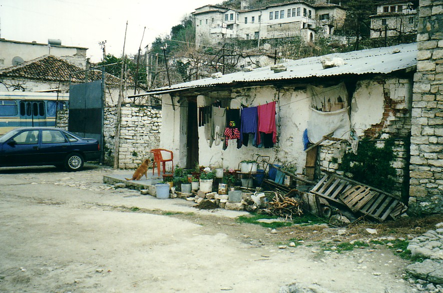 Albanian house in beratalbanian house in berat